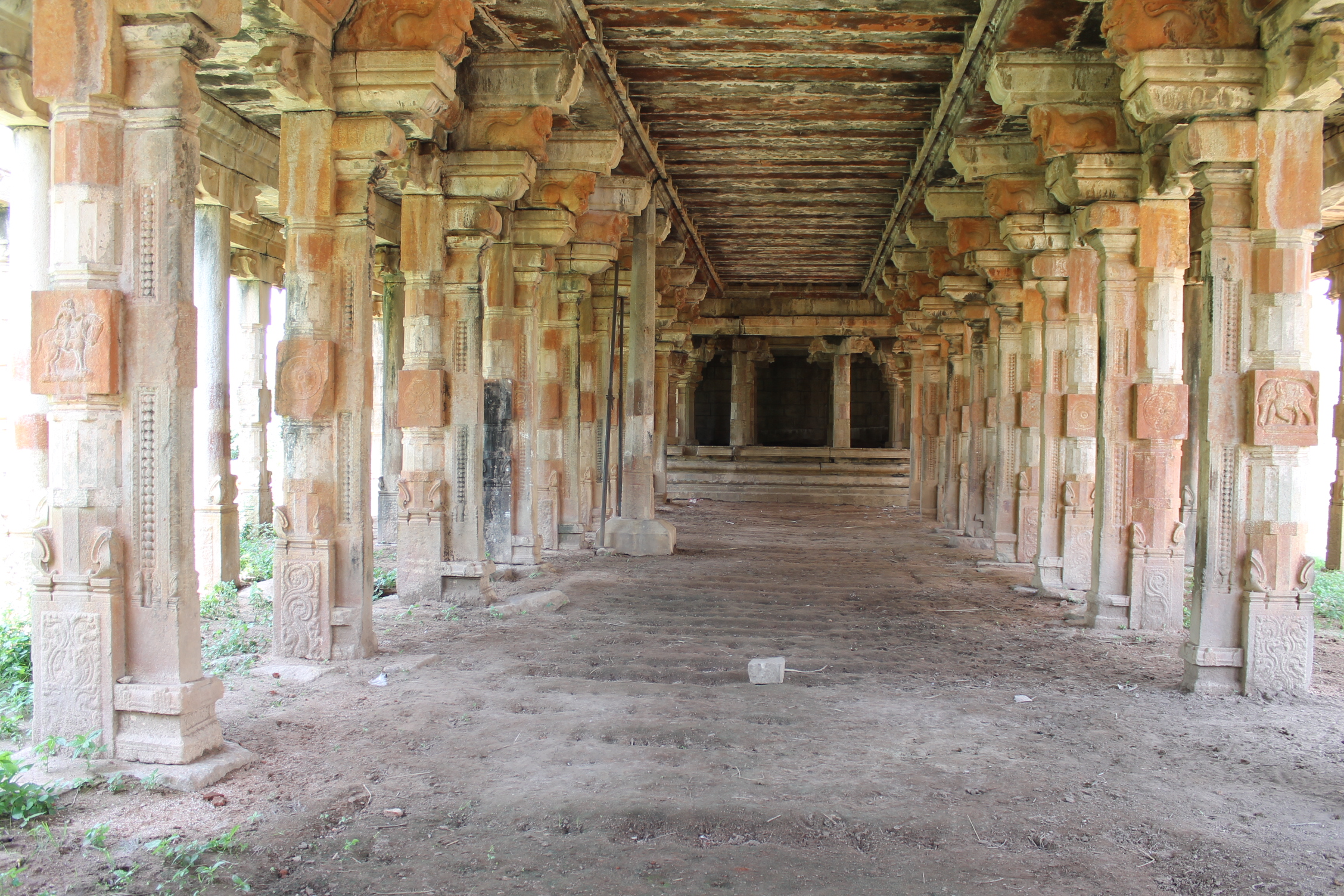 "An amazing Hall Of Hundred Pillared Mandapam". Location: Kunnandarkoil, Pudukottai district, Tamil Nadu, India.